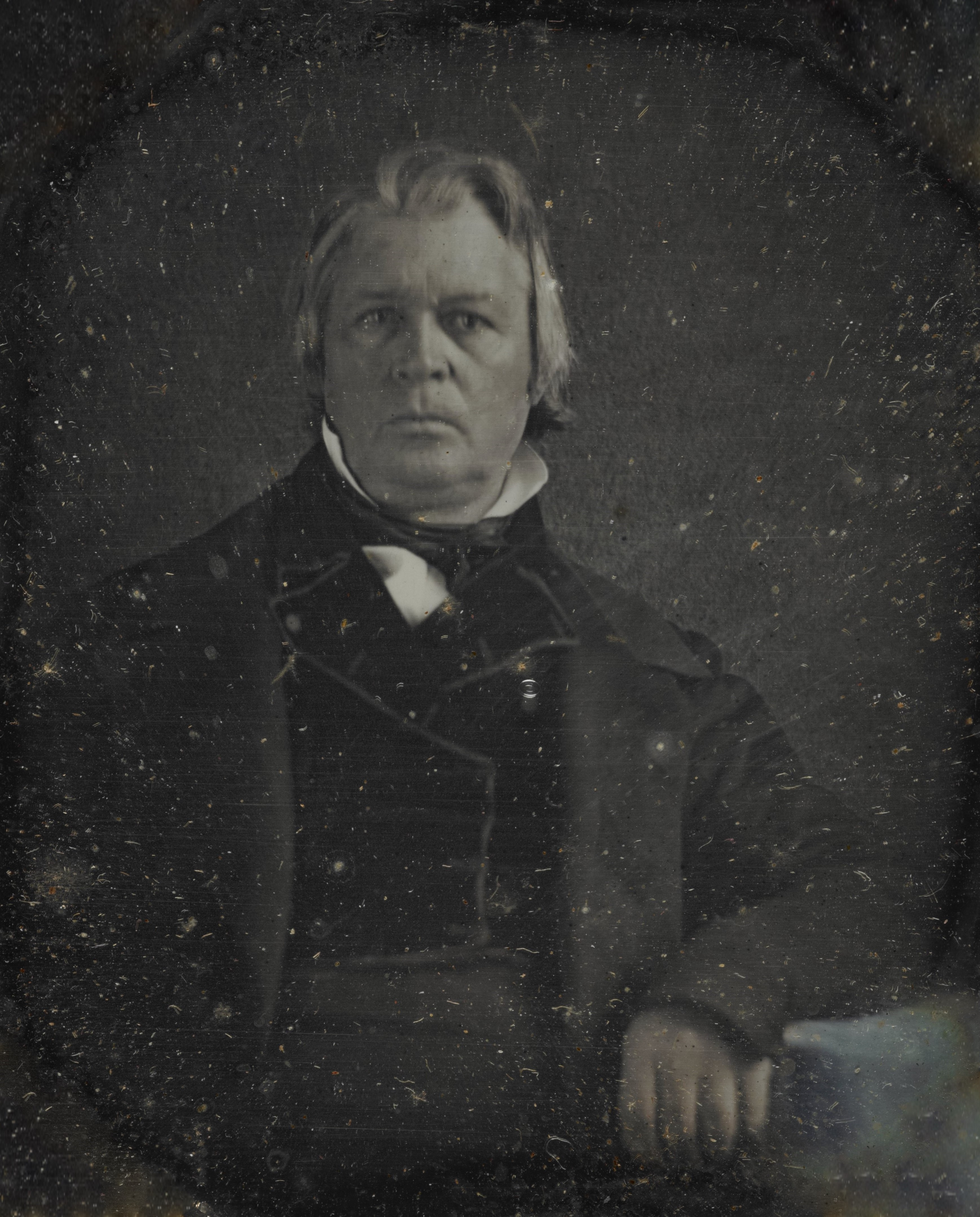 Early 1840s Daguerreotype of Robert Smith Todd